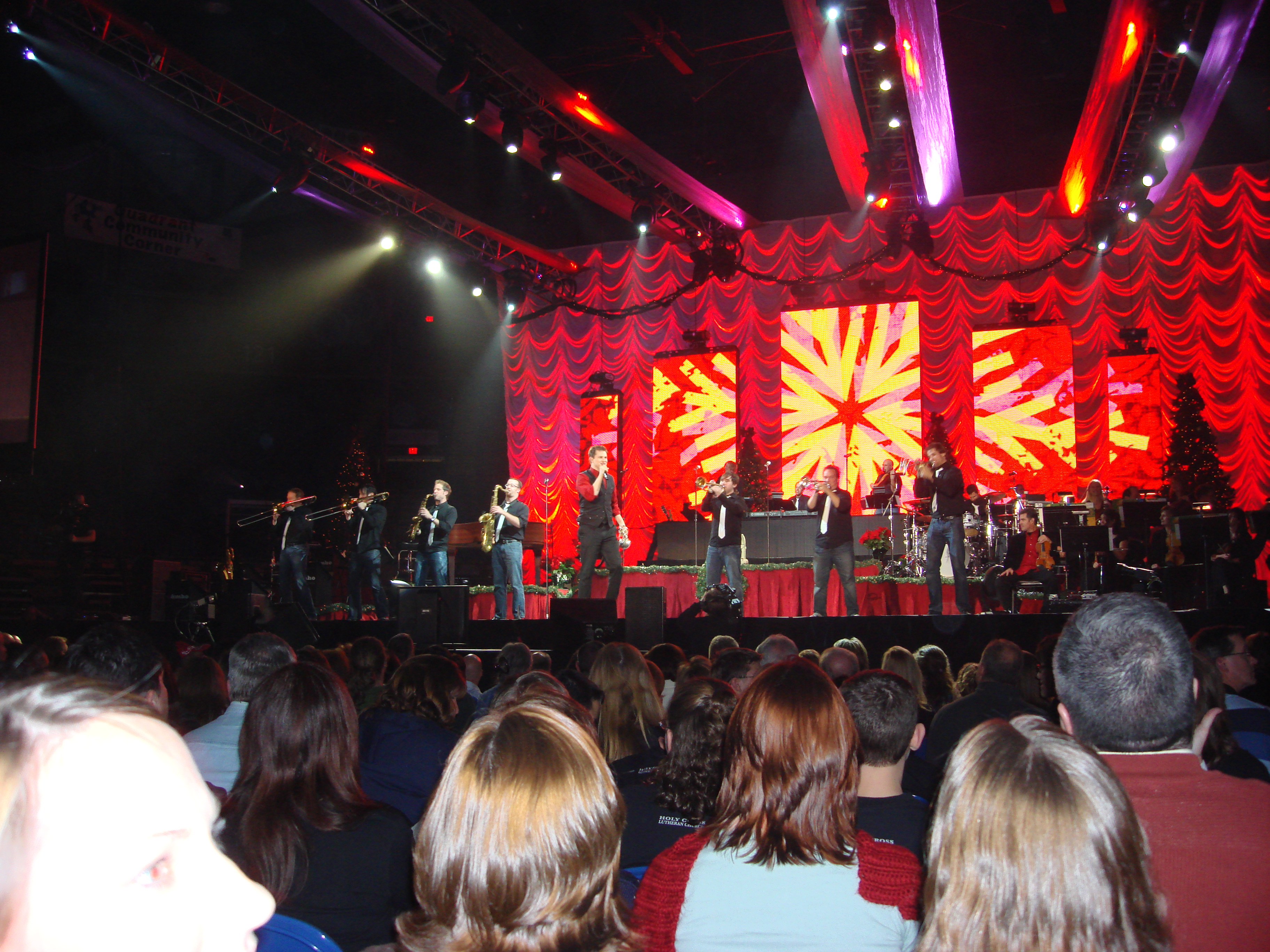 Denver and the Mile High Orchestra performing in the Casting Crowns Christmas Celebration tour, at the Sovereign Center in Reading, PA.